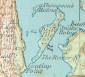 OS Map of Belle Isle from 1925